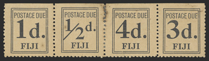 S.G. #D1a, 1917 ½d-4d postage dues, se-tenant strip of four, in the proper configuration (1p-½p-4p-3p), without gum as issued. An important Fiji and postage due rarity, as it is believed only five or six such strips have survived (Scott #J6a var.)